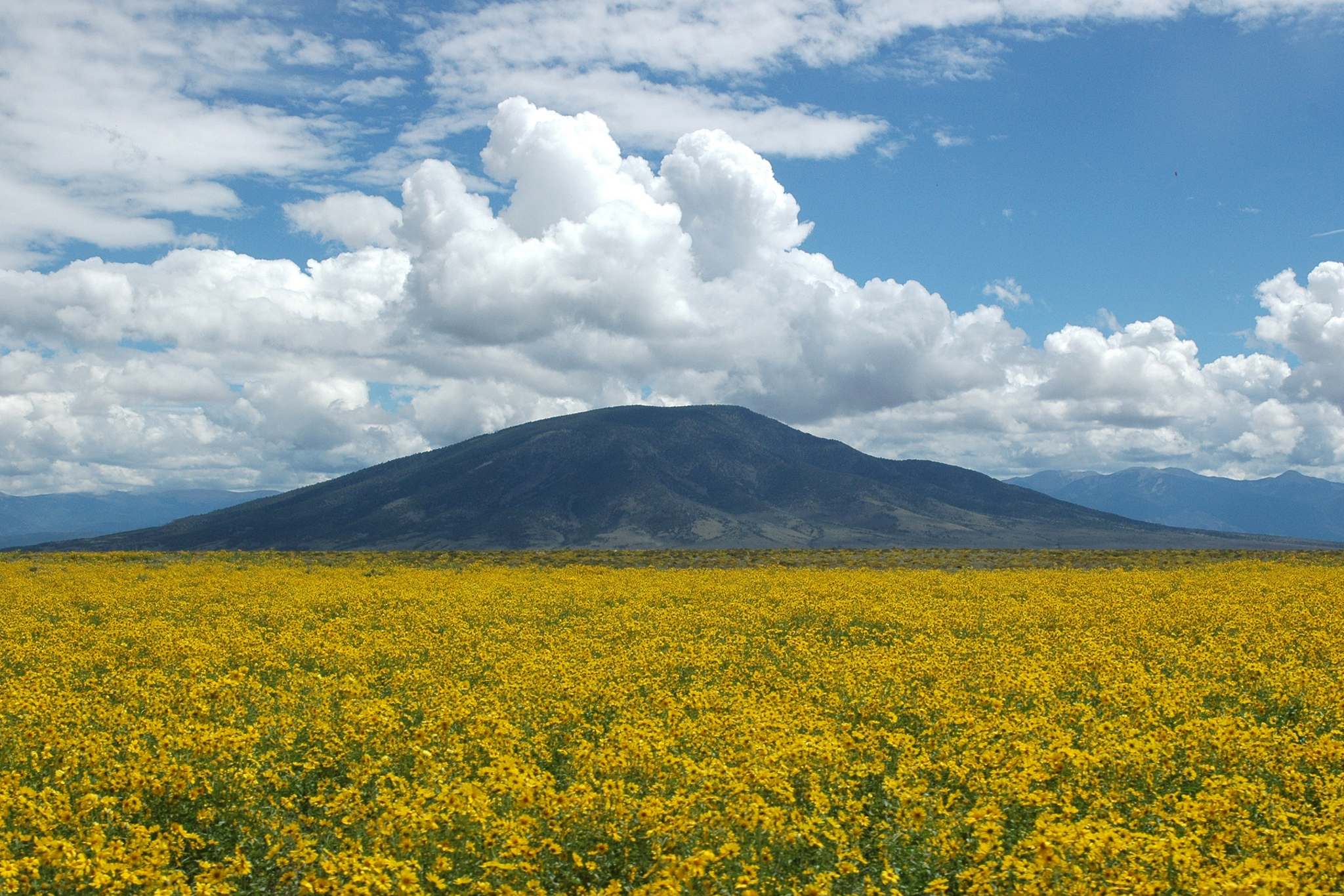 Go for a hike and listen for an eagle as it soars above an 800-foot gorge, fish in world-class trout waters, marvel at a herd of elk crossing the desolate plateau, or raft alongside the river otter. You have entered the natural world of the Río Grande del Norte National Monument! The landscape of this special place in northern New Mexico is a showcase of stark, wide open spaces covering 242,500 acres. At an average elevation of 7,000 feet, the monument is dotted by volcanic cones and cut by steep canyons. While the Río Grande carves a deep gorge through layers of volcanic basalt flows and ash, nearby cottonwoods and willows shelter abundant songbirds and waterfowl. An amazing array of wildlife dwells among the piñon and juniper woodlands and the mountaintops of ponderosa, Douglas fir, aspen, and spruce (some 500 years old). Raptors, mule deer, cougar, and black bear are not uncommon. Be alert! At any moment bighorn sheep may appear! Since prehistoric times this area has attracted human activity, as evidenced by petroglyphs, prehistoric dwelling sites, and many other types of archaeological discoveries. Abandoned homesteads from the 1930s reflect more recent activity. On March 25, 2013, a Presidential proclamation designated the area a national monument, managed by the Bureau of Land Management as part of the National Landscape Conservation System. Learn more about the monument: Photos by Bob Wick, BLM